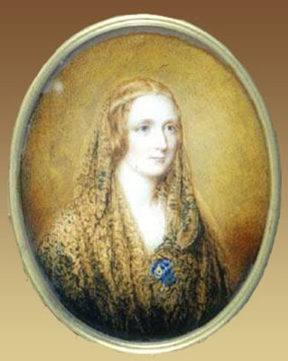 Reginald Easton painted this miniature portrait of Mary Shelley, on a flax coloured background. It incorporates a circlet backed by blue, the same seen in the Rothwell painting and a shawl.[1][2]